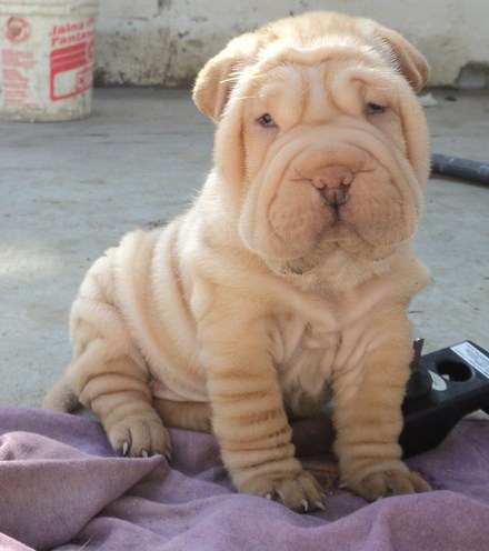 Sharpei